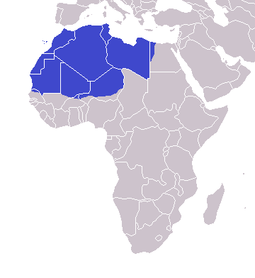 Amazigh Berber land